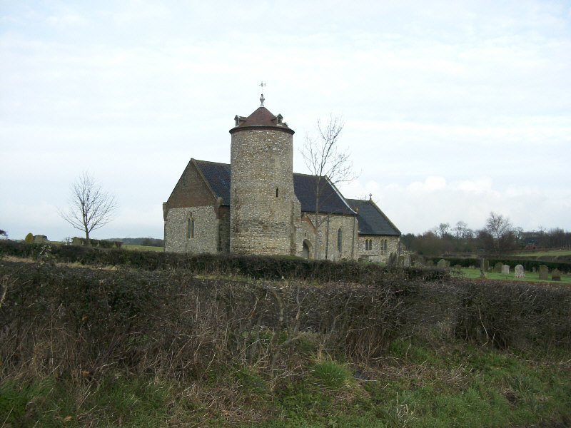 Little Snoring St. Andrew